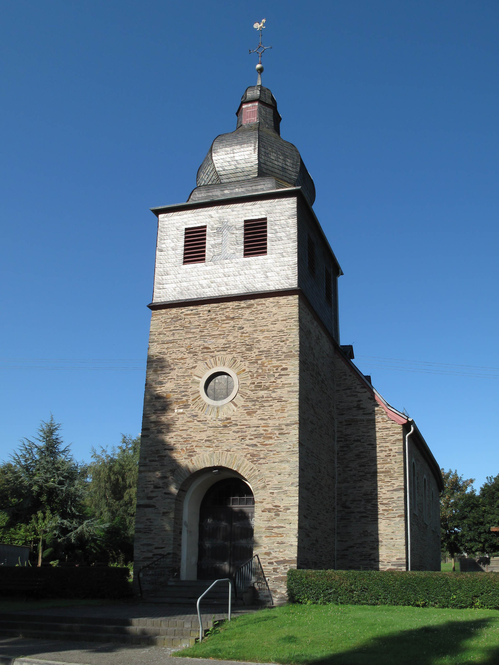 Reckershausen, church